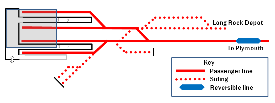 A diagram (not to scale) showing the arrangement of tracks at Penzance railway station in Cornwall, United Kingdom, as they are in 2009.